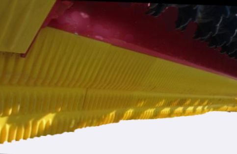 Finisher, board and tiller on a Kässbohrer PB 600 snow groomer.